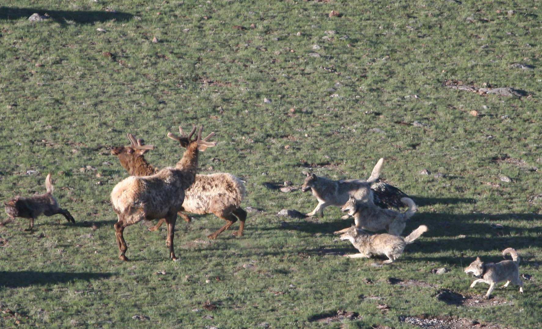 The Leopold pack hunts two elk in Yellowstone National Park.